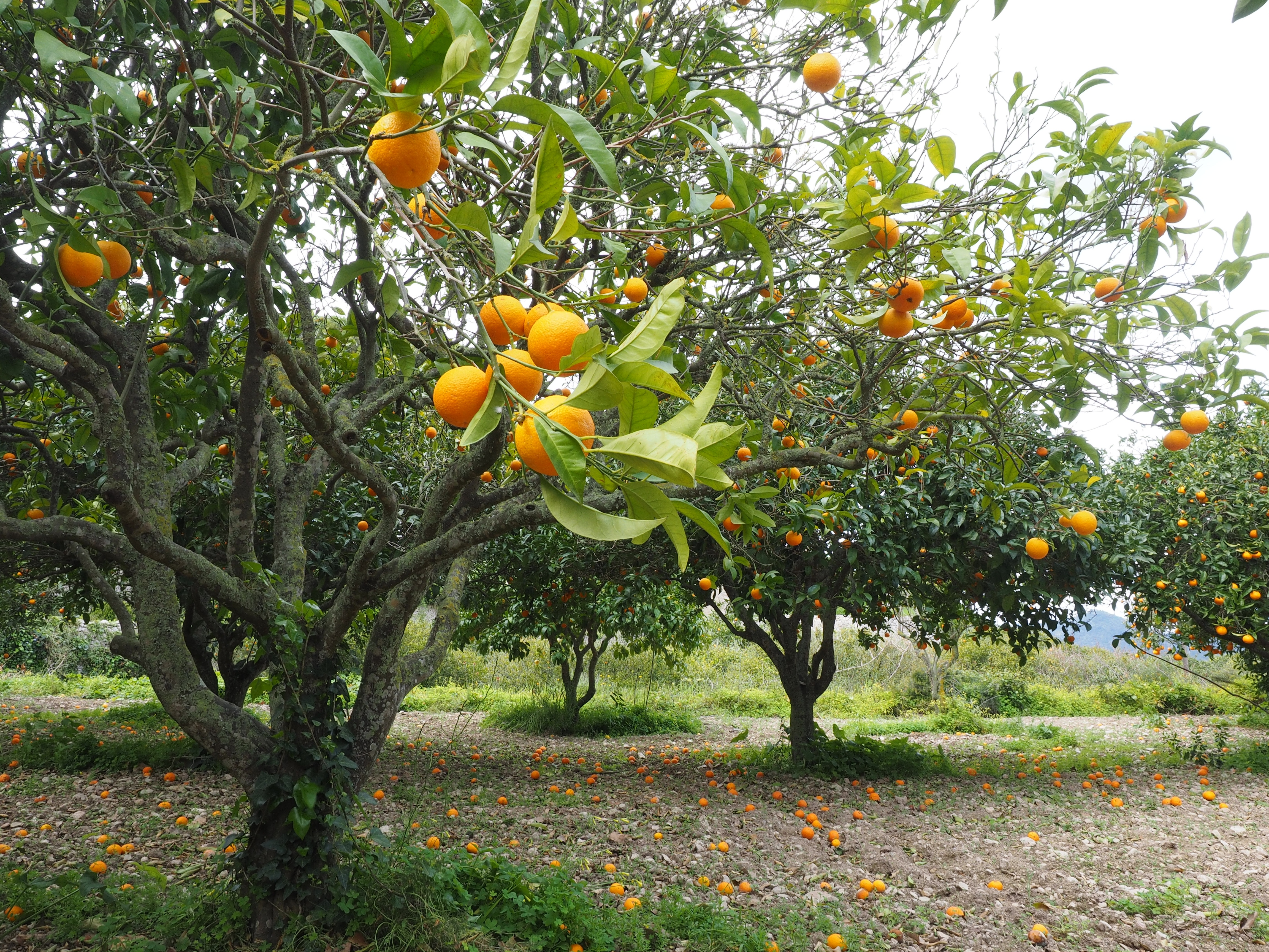 Orange grove.